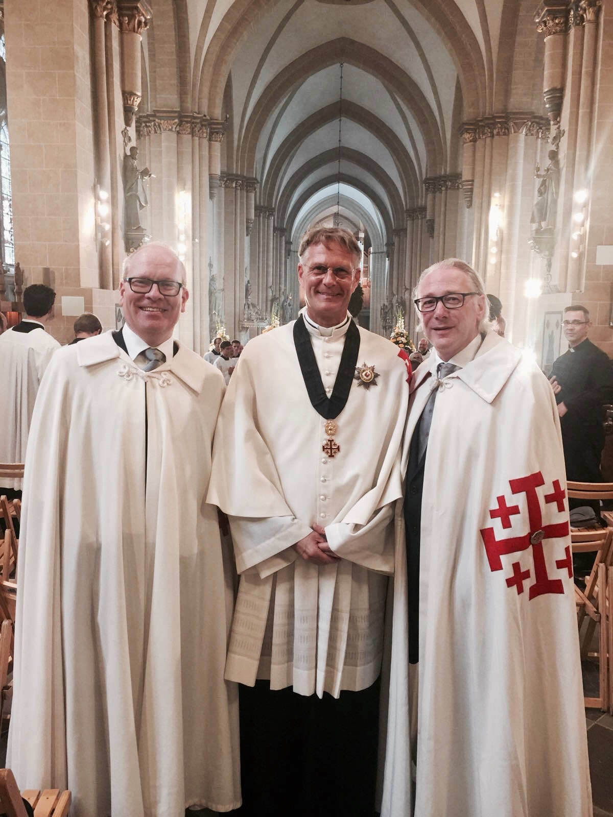 Hans-Peter Fischer (mid) with two knights of the Order of the Holy Sepulchre in Paderborn ("Liborifest")